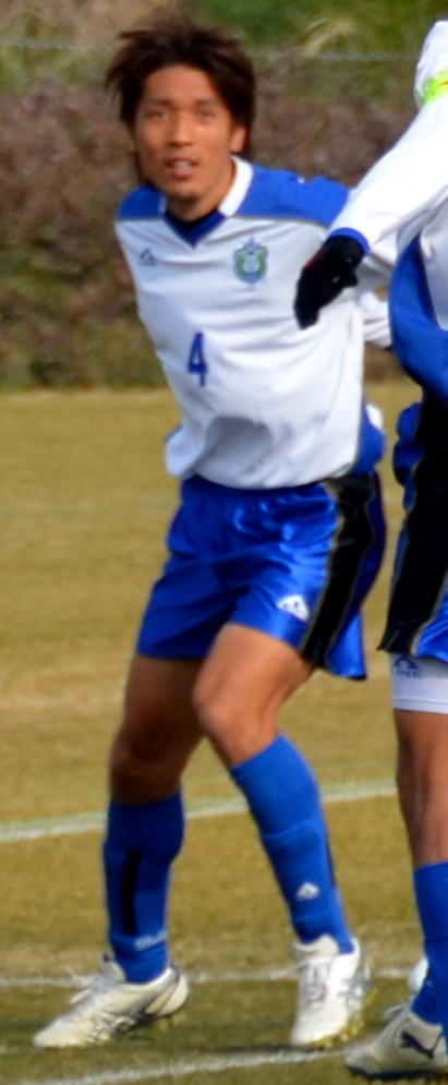 Takahiro Yamaguchi.jpg cropped from kofu - shonan